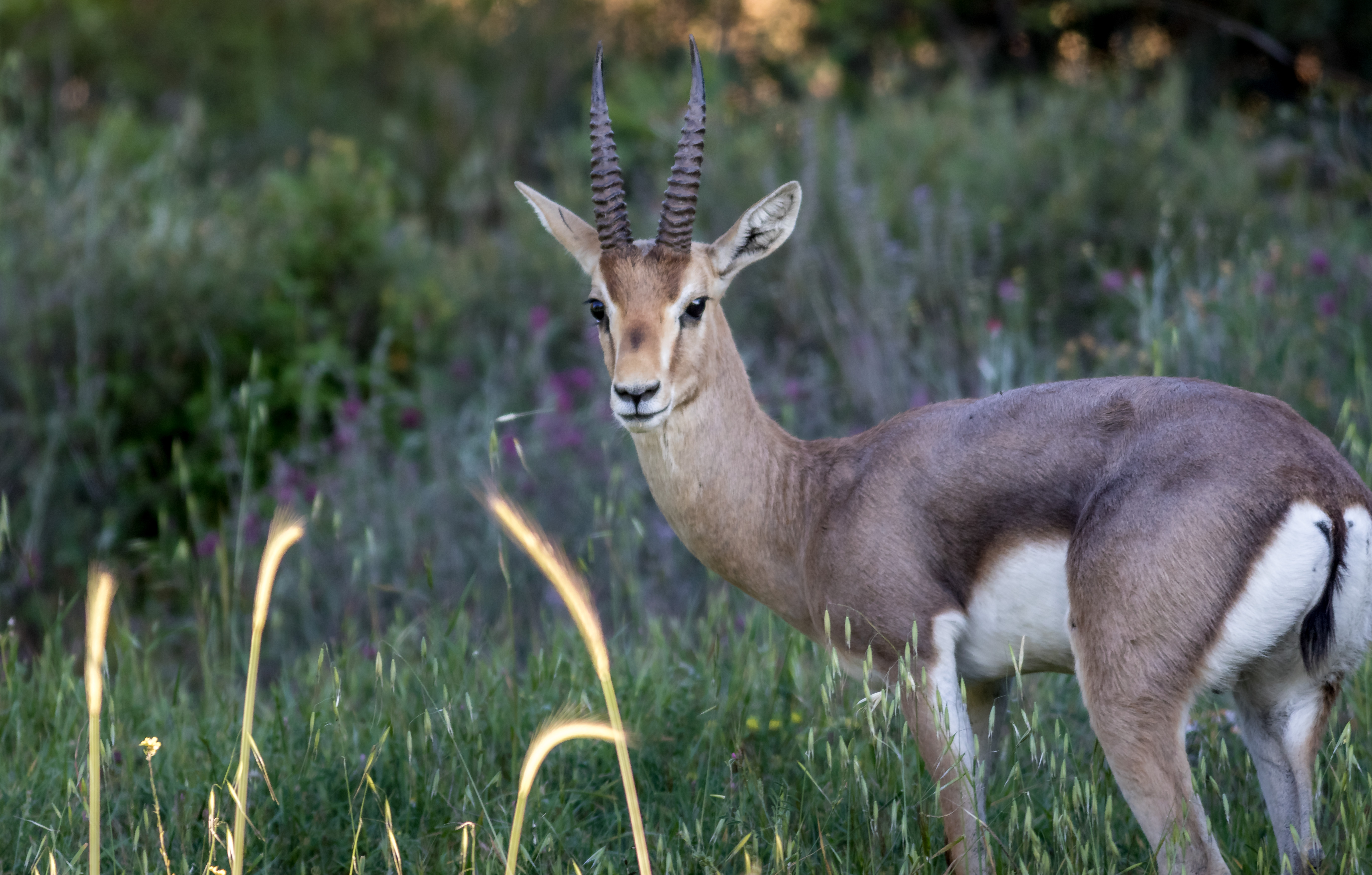 Gazella gazella gazella. Hevel Lakhish, Israel.